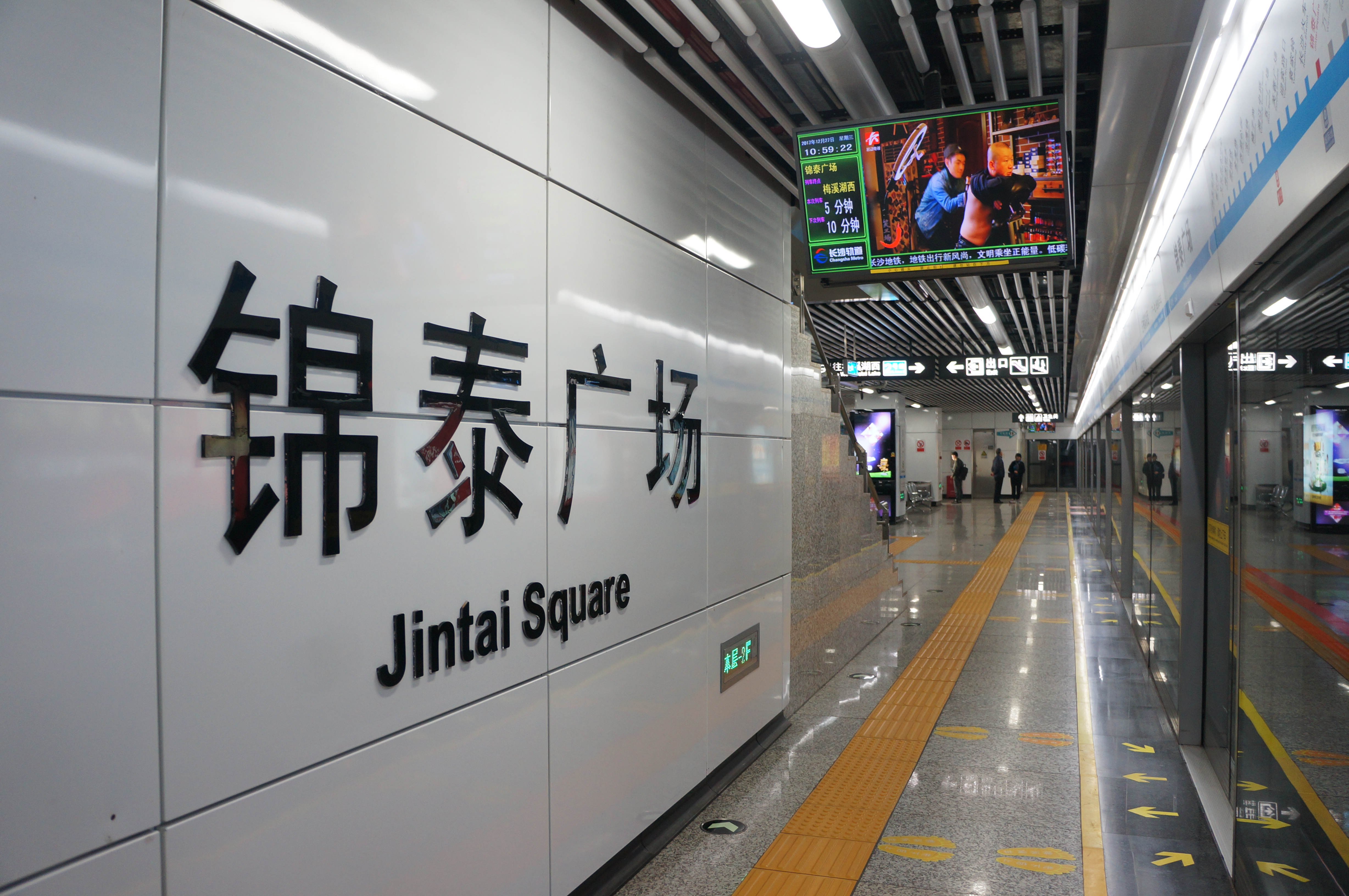 201712 Nameboard of Jintai Square Station